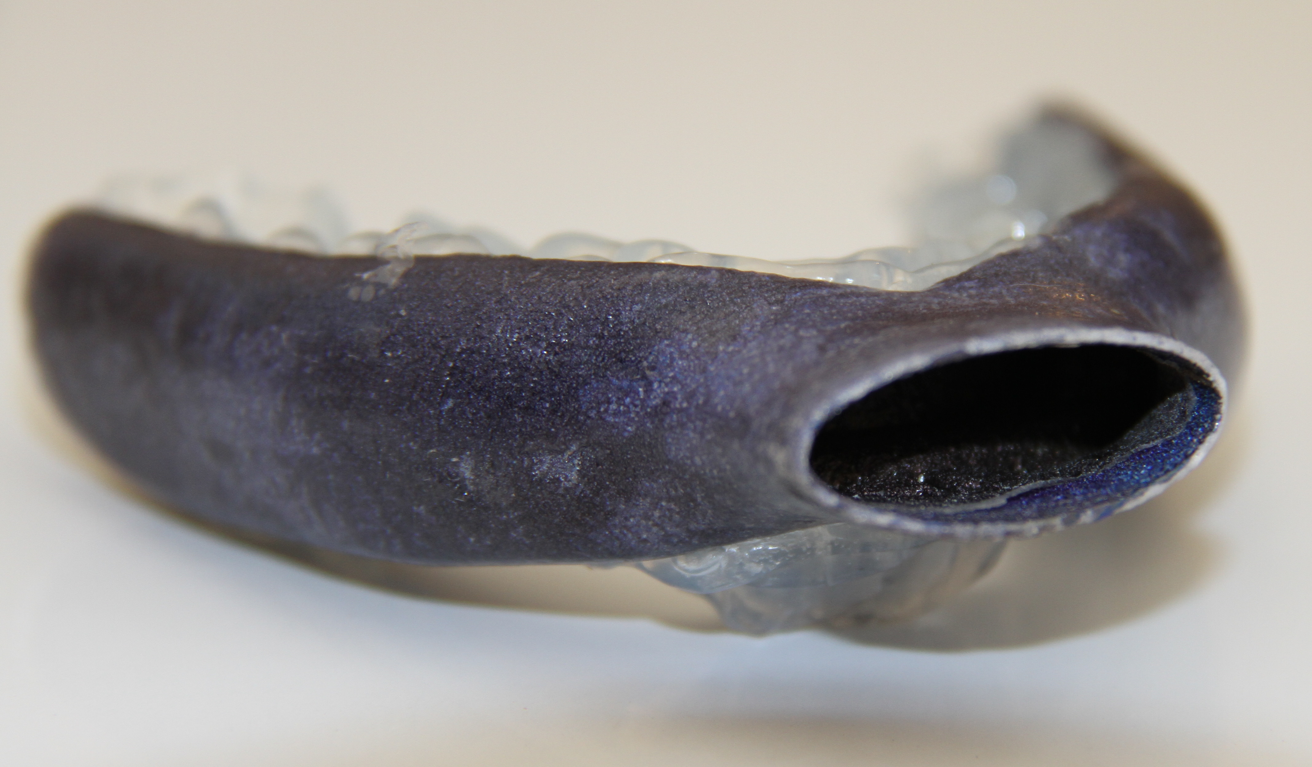 Using a 3D scanner to map a patient’s mouth, it is possible to print a mouthpiece which prevents dangerous pauses in breath during sleep. Printed from titanium and coated with a medical grade plastic, the breakthrough mouthpiece is customised for each patient. The device has a ‘duckbill’ which extends from the mouth like a whistle and divides into two separate airways. It allows air to flow through to the back of the throat, avoiding obstructions from the nose, the back of the mouth and tongue.